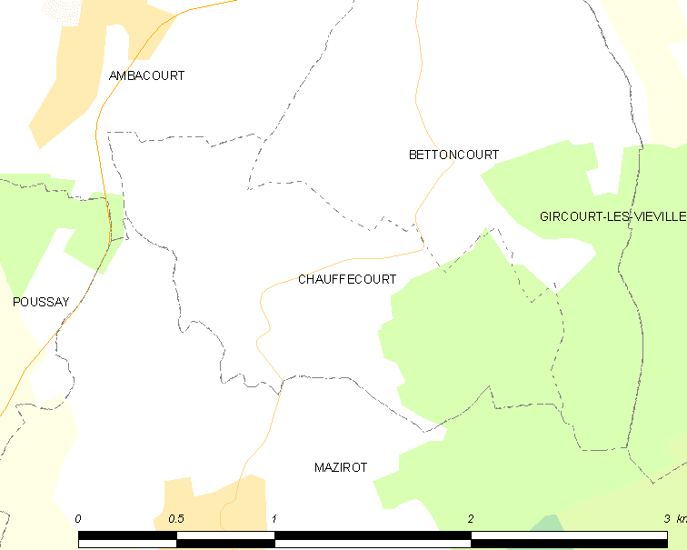 Map of French municipality Chauffecourt